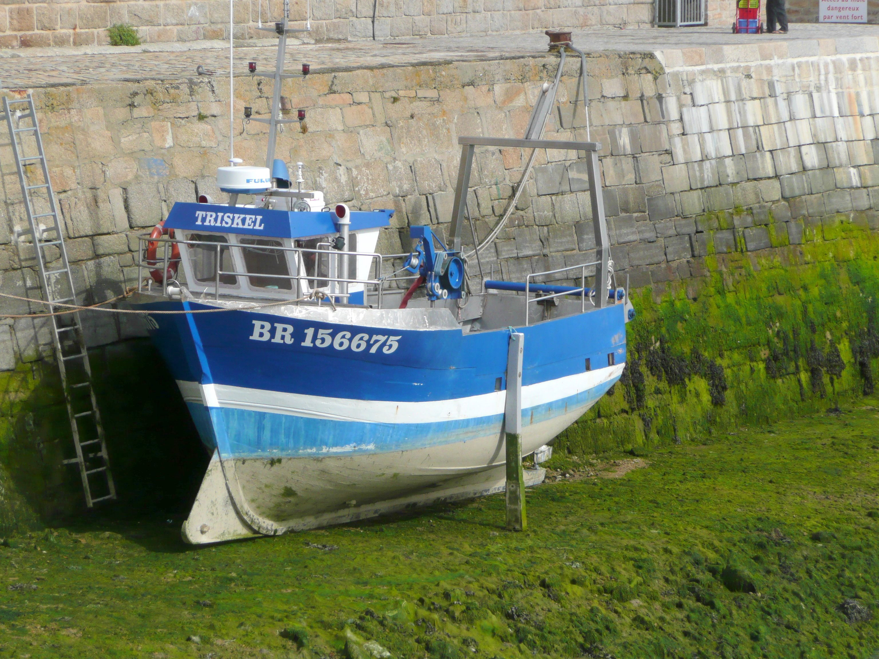 Fishing boat in the harbour of Aberwrac'h (Britanny, France)